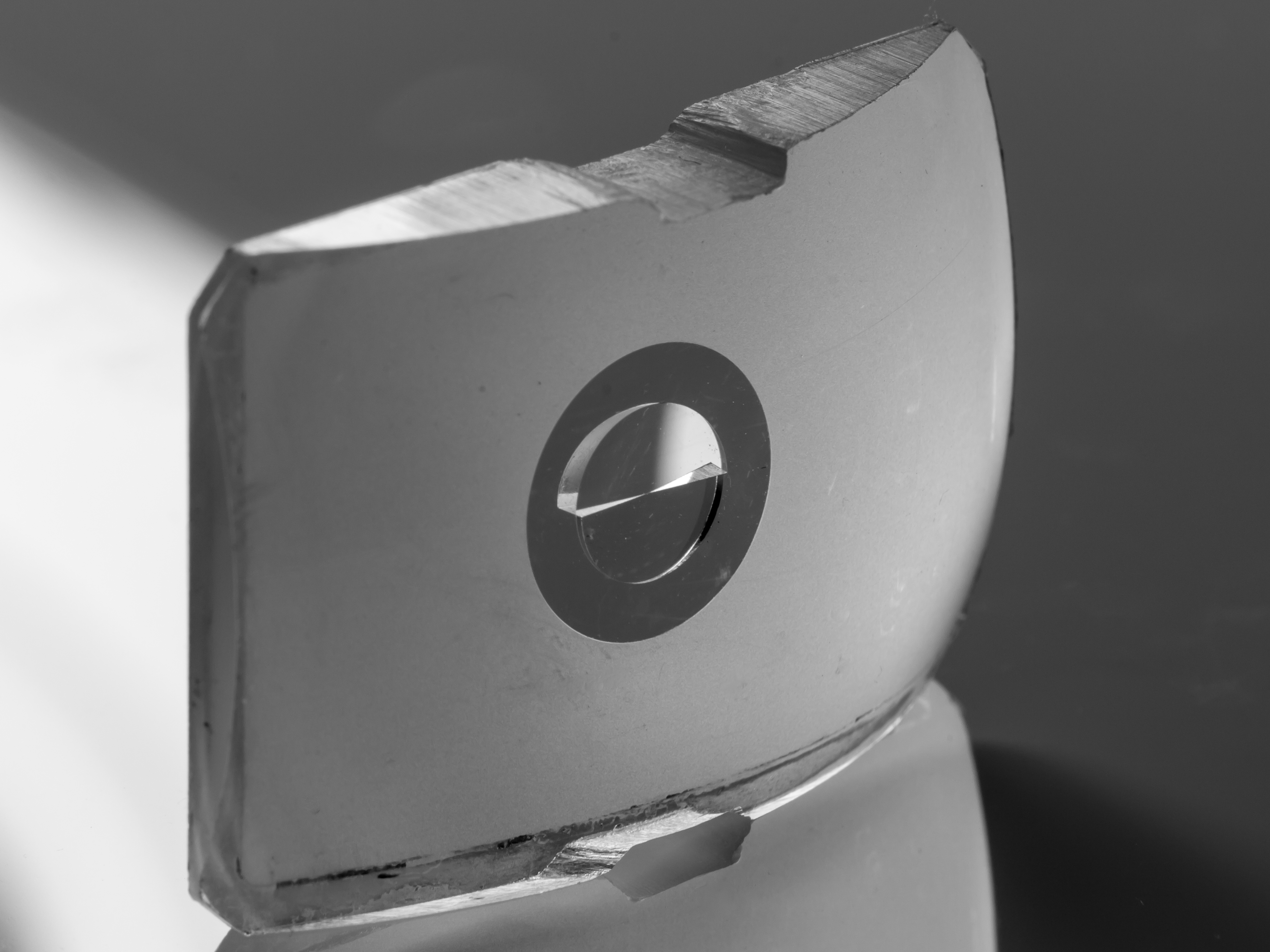 Exchangeable focusing screen with clear glass ring around split screen indicator, from a single-lens reflex camera (Edixa Reflex Ba, ca. 1965)